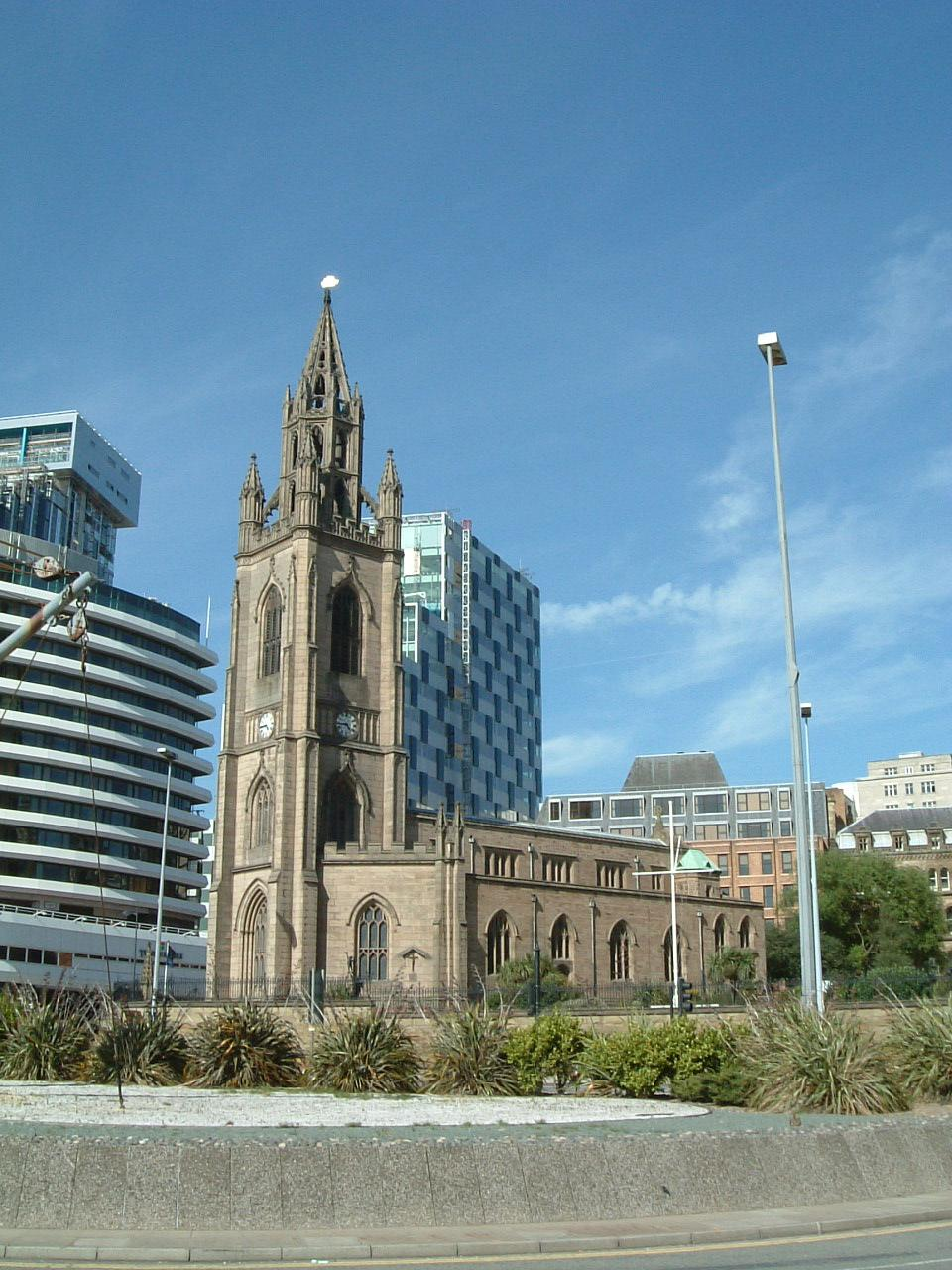 Taken by James@hopgrove, July 2006.